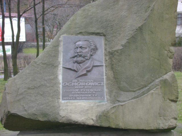 Monument dedicated to Julian Ochorowicz in Wisła